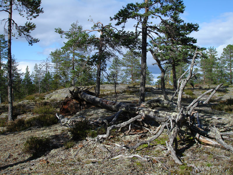 Pines on rocky land where the soil has been washed away by the sea. Postglacial rebound has since lifted up the land.